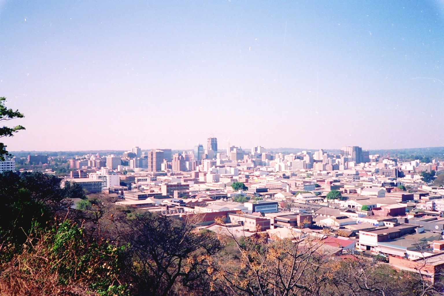 Harare cityview